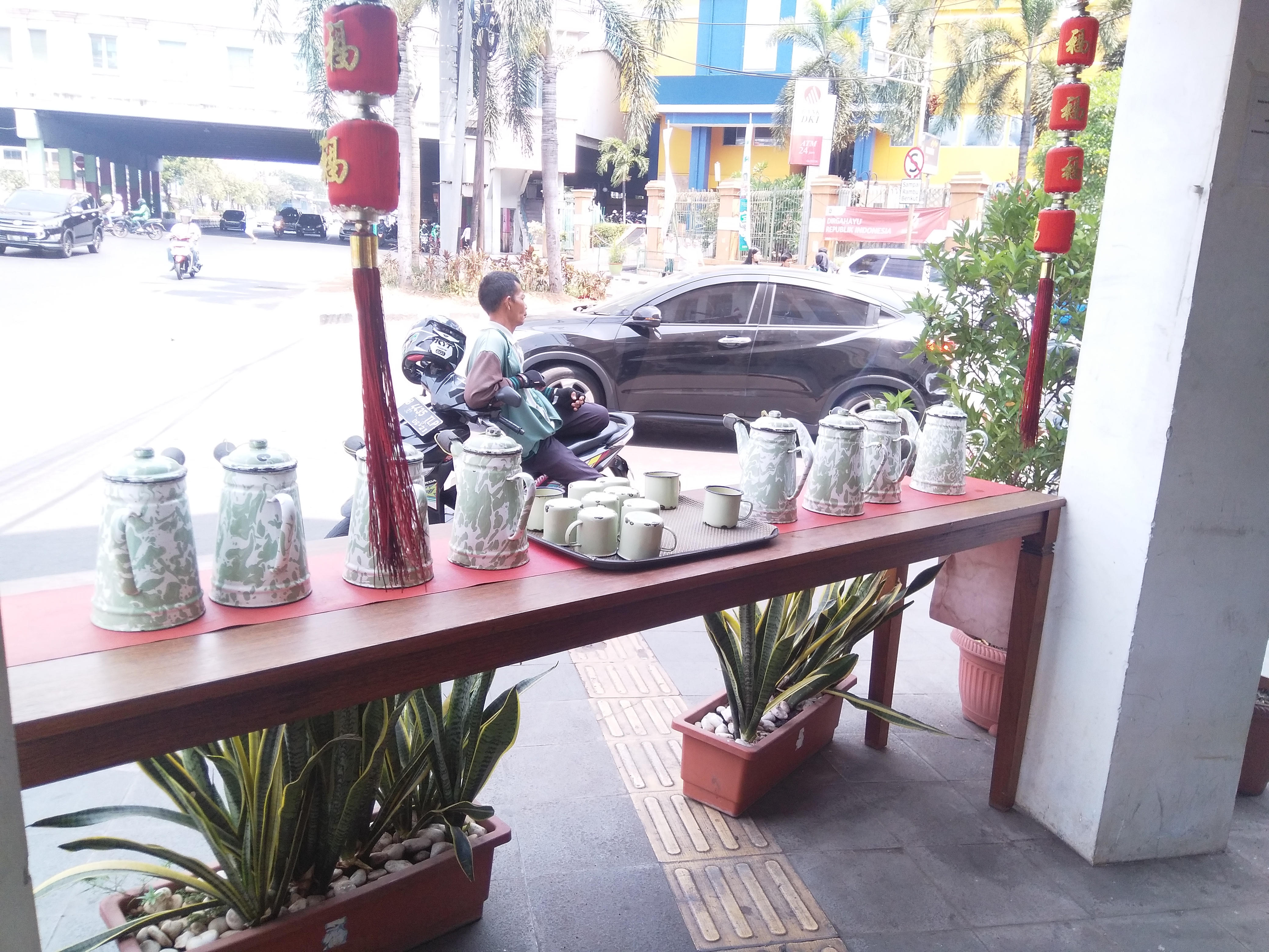 Tea House Pantjoran, Glodok, Jakarta